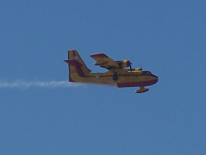 A Canadair CL-215 of the Hellenic Air Force in action over Athens.